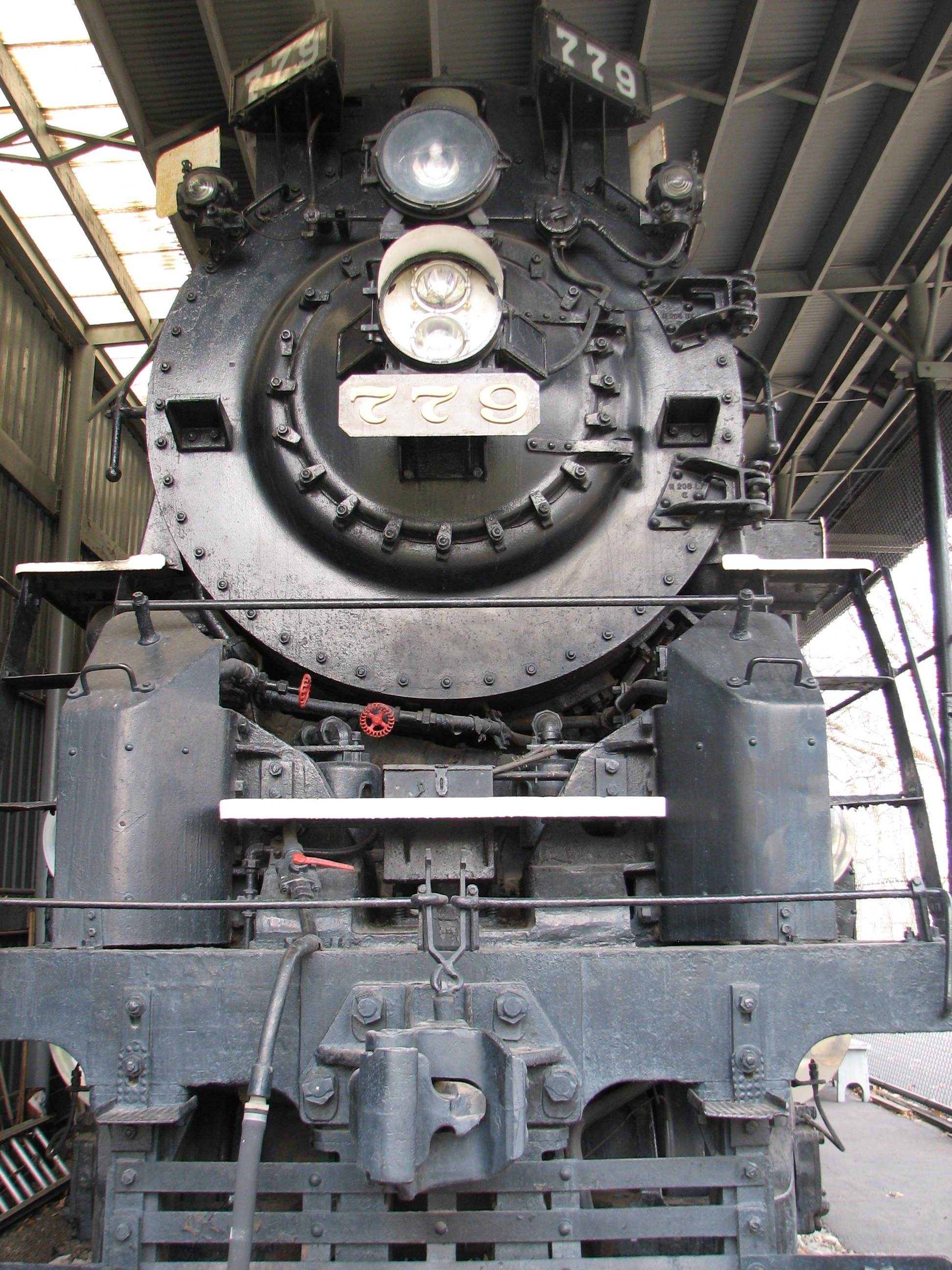 Baldwin Berkshire-type No. 779 built for the Nickel Plate Road, now located at Lincoln Park in Lima, Ohio. The "Berkshire-type" represents the most advanced development of steam power. The Nickel Plate Railroad had a total of 80 such locomotives built between 1934 and 1949 at a cost of approximately $189,000 each.